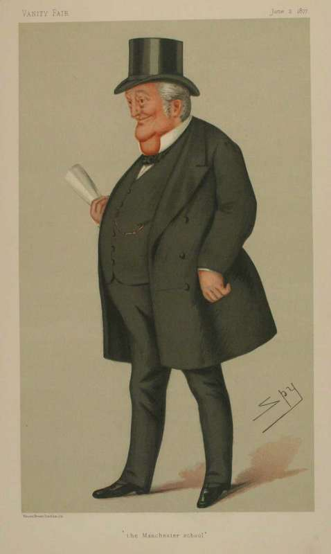 Caricature of Mr TB Potter MP. Caption read "the Manchester school".